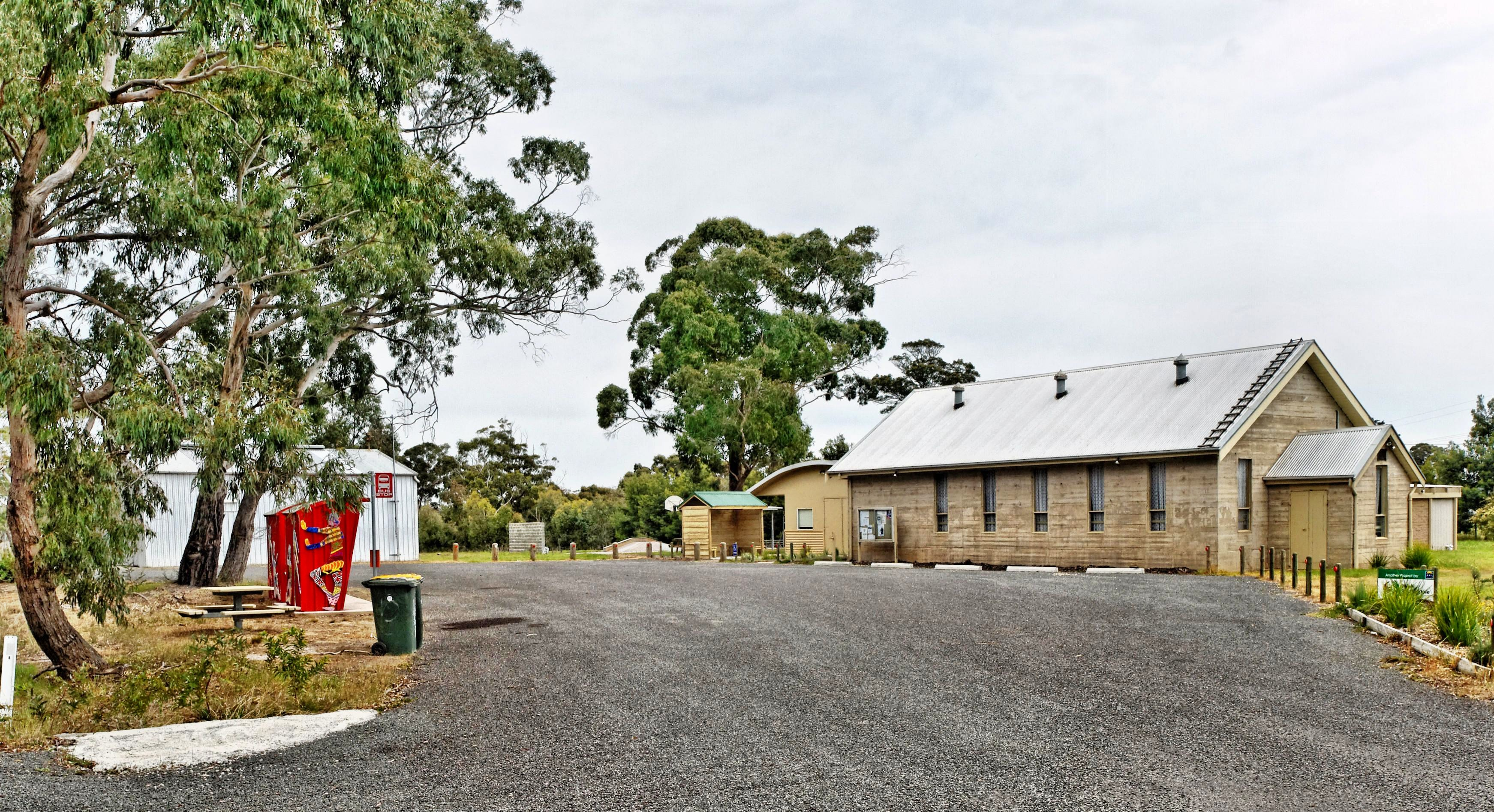 Centre of Dereel, Victoria, comprising the Soldiers Memorial Hall on the right and the CFA shed on the left.